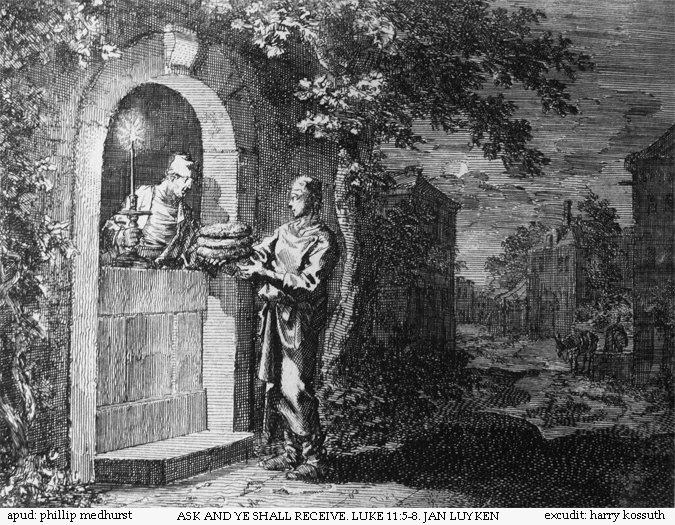 An etching by Jan Luyken illustrating Luke 11:5-8 in the Bowyer Bible, Bolton, England.